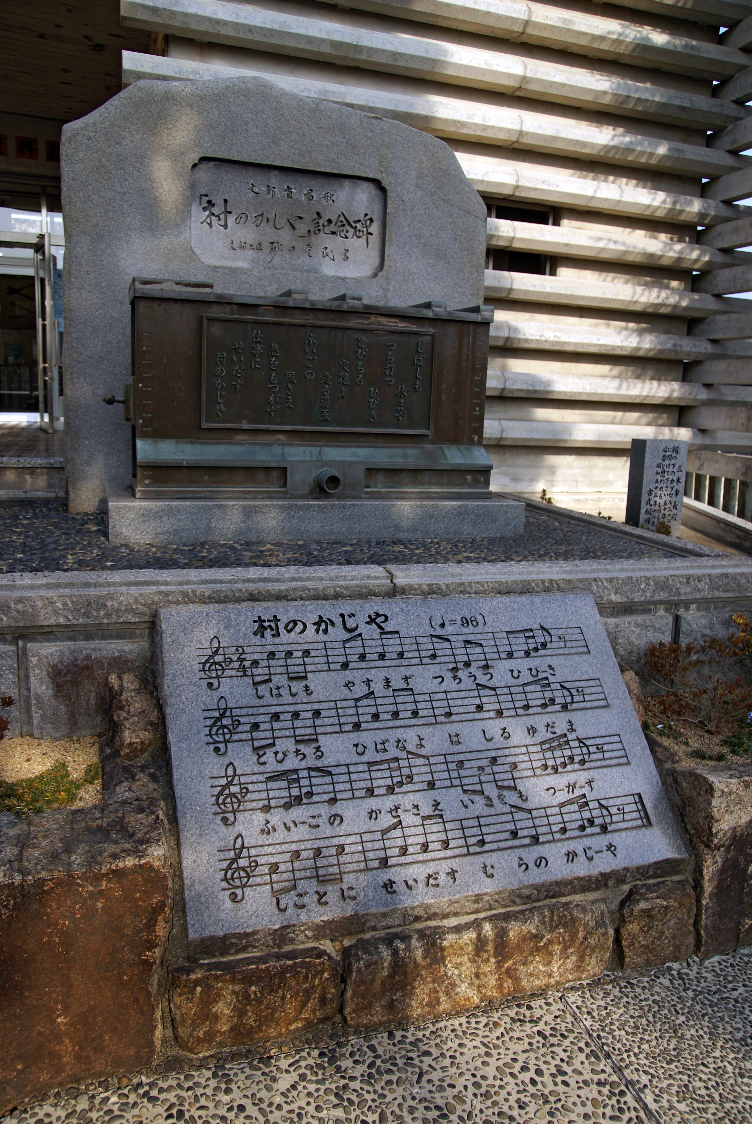 Miki City Hardware Museum in Miki, Hyogo prefecture, Japan